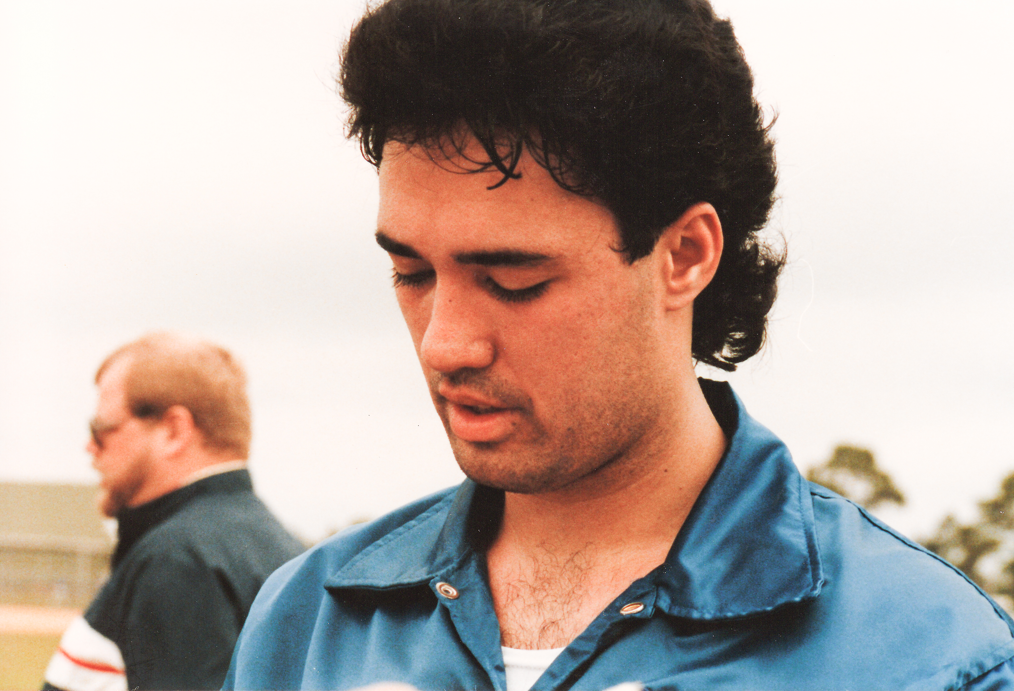 New York Mets Spring Training St. Petersburg, Florida February 1986